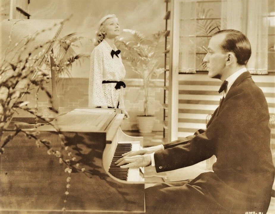 Julie Haydon and Noël Coward in The Scoundrel (1935) - publicity still (cropped)